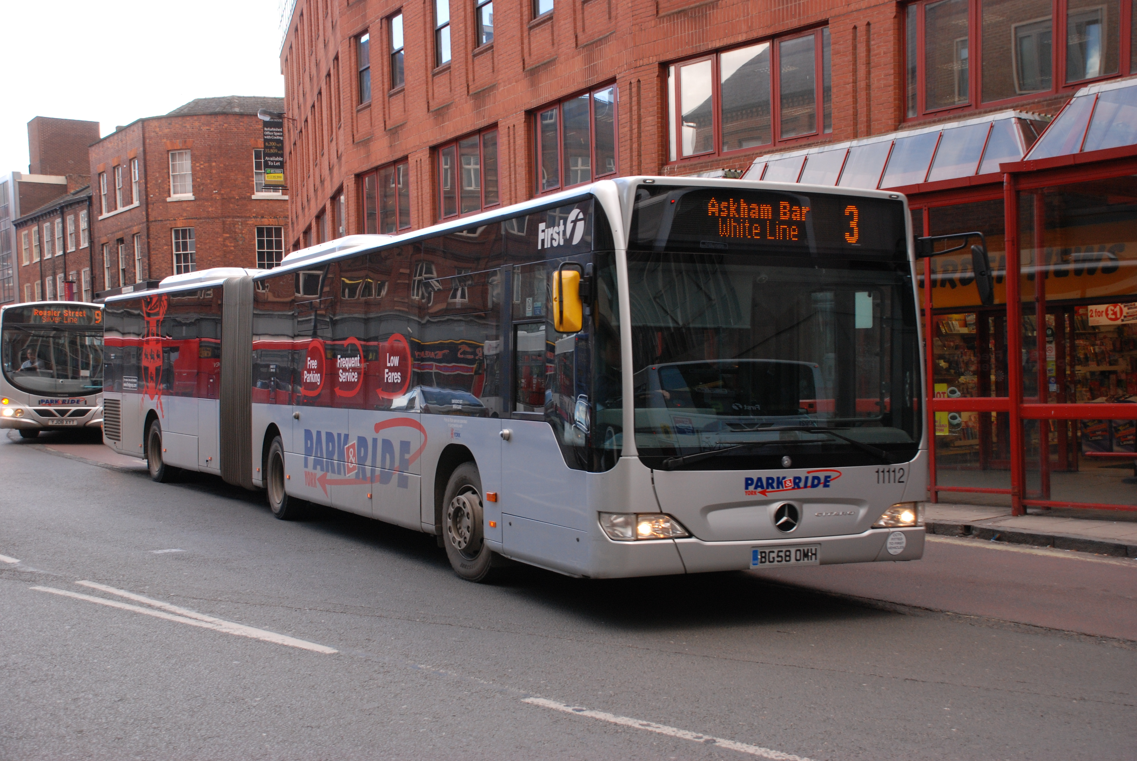 York Park & Ride bendy bus.